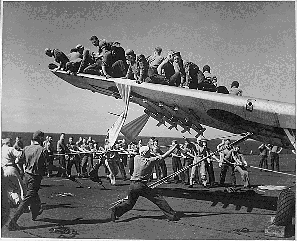 Crewmen trying to lift a Grumman TBF-1 Avenger torpedo bomber of composite squadron VC-69 out of the catwalk of the U.S. escort carrier USS Bogue (CVE-9) on 19 June 1944. Note the underwing rockets. Bogue was active in the Atlantic Ocean to protect Allied convoys.